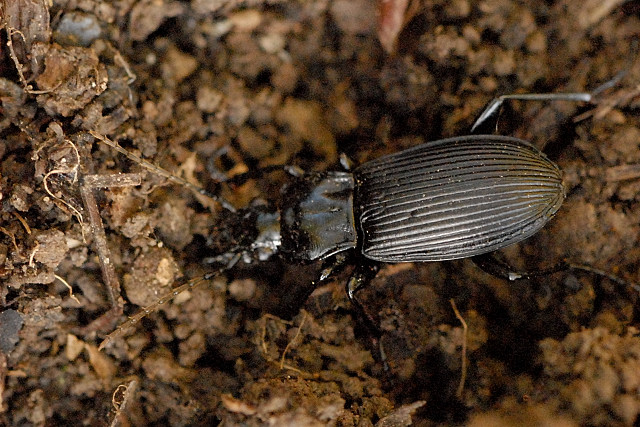 Picture taken in Commanster, Belgian High Ardennes . Species: Pterostichus anthracinus